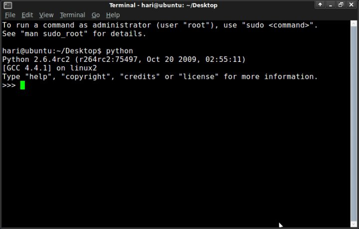 python programming language in xubuntu 9.04